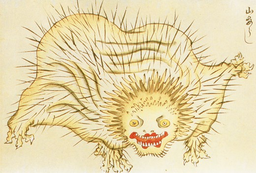 Yamaarashi (山あらし, a supernatural porcupine) from the Hyakki-Yagyō-Emaki (百鬼夜行絵巻)